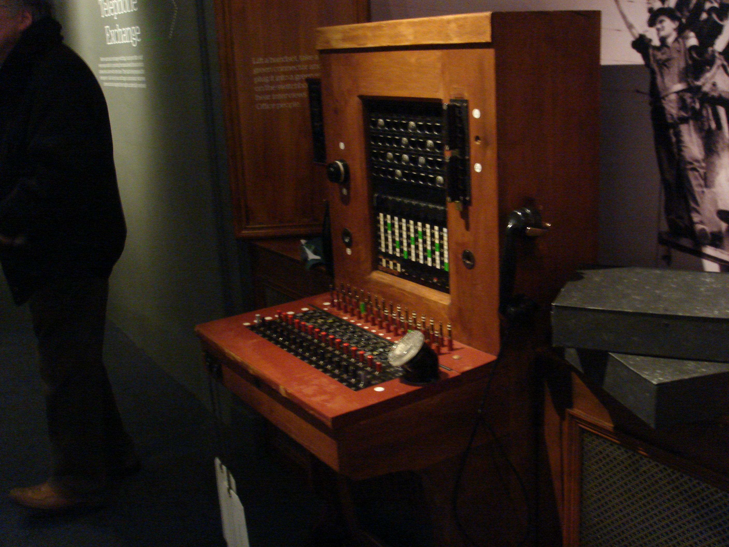 Dublin, Ireland